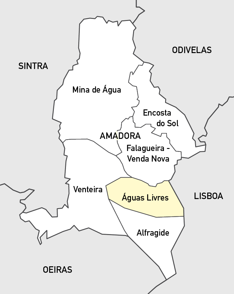 Map of the Freguesia Águas Livres of Amadora